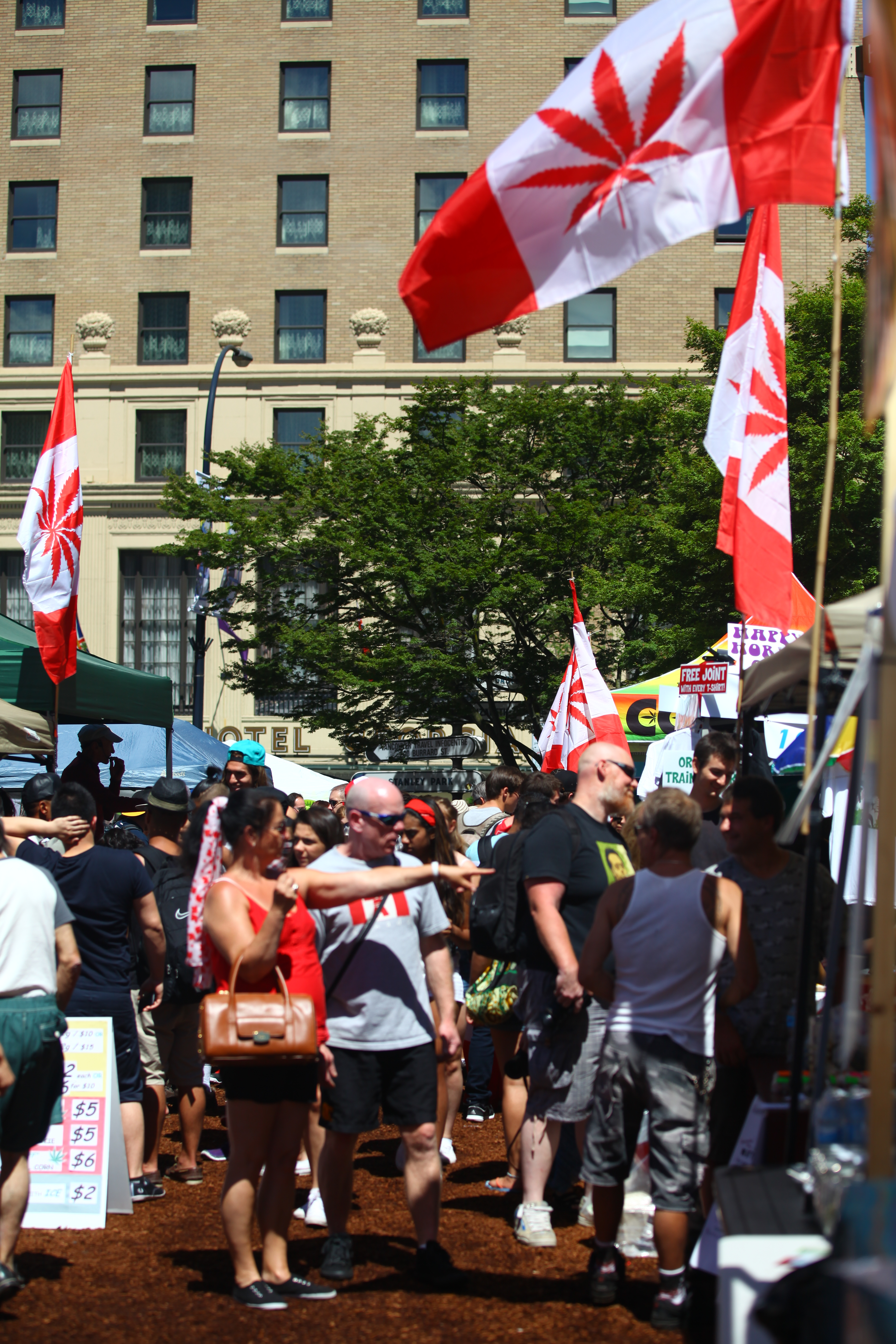 420 - Cannabis Day Canada Day